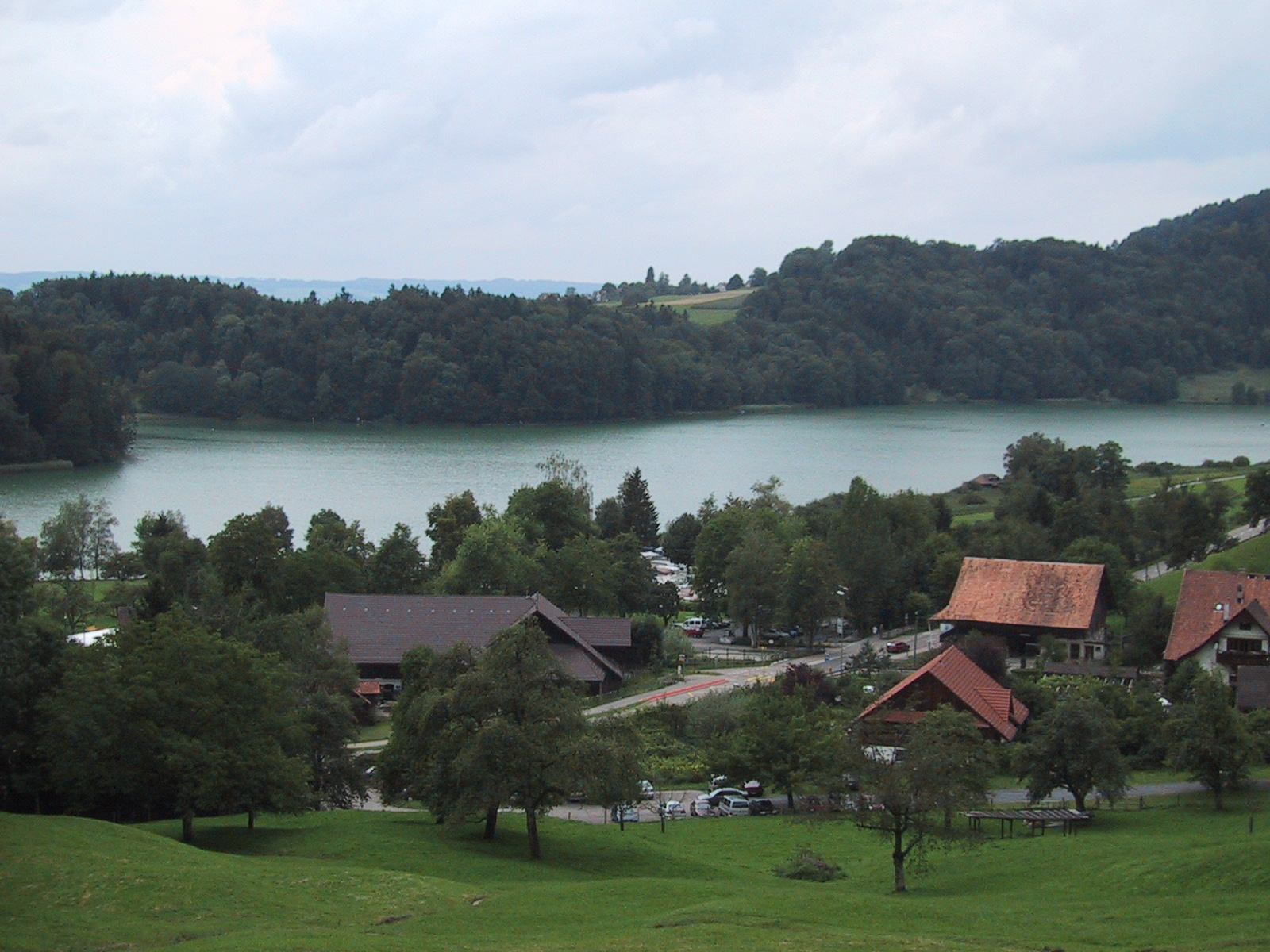 Türlersee in the canton of Zurich, Switzerland.